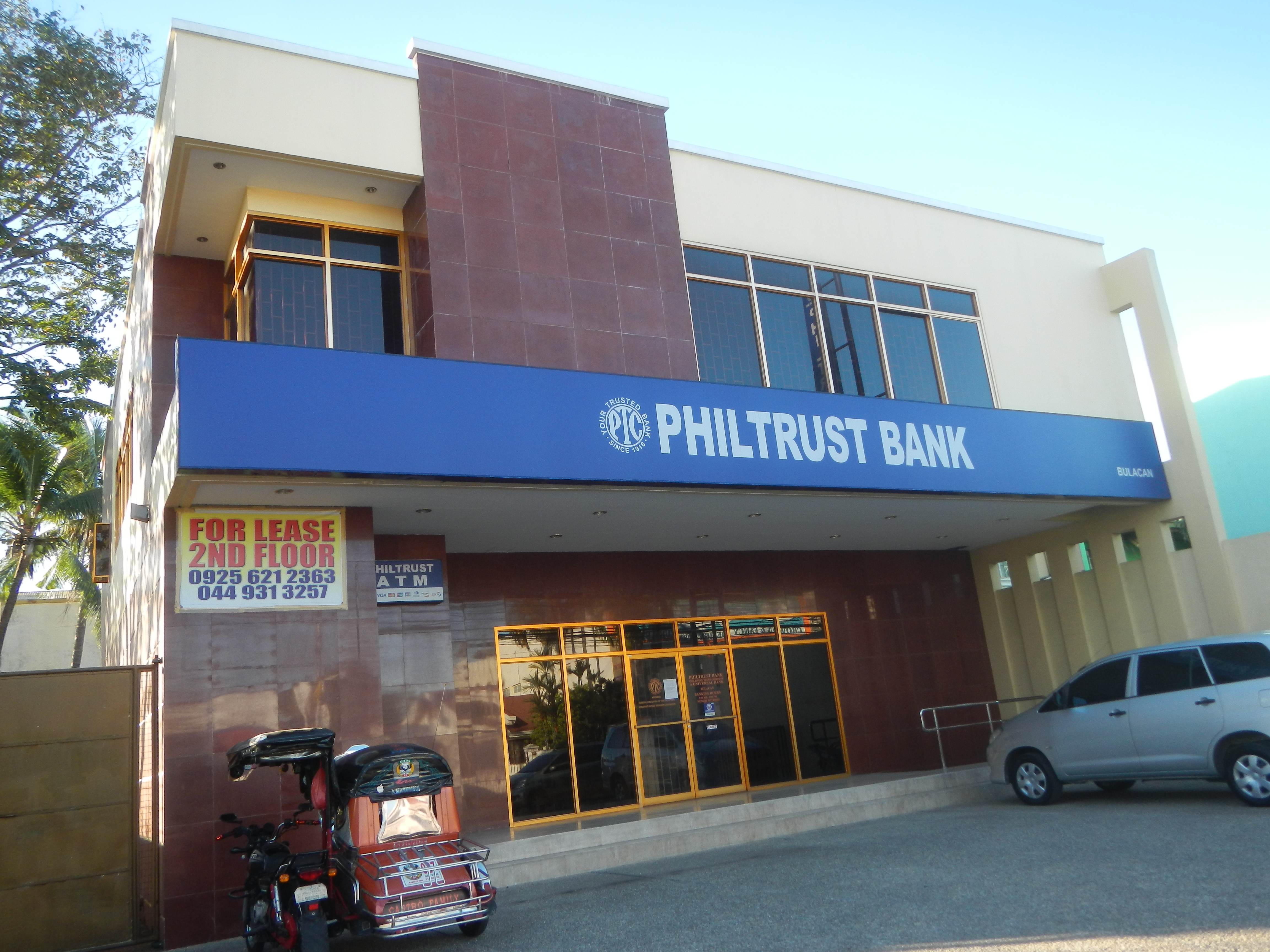 Philtrust Bank (Malolos City, Bulacan) Paseo del Congreso of Malolos Historic Town Center and Malolos Heritage Town, Kamestisuhan District, Heritage District, from and along the Bigaa-Plaridel via Bulacan and Malolos City, Bulacan Road interconnecting into and from the Malolos Flyover and (Malolos City overpass bridge at and from MacArthur Highway or Manila North Road) MacArthur Highway (Malolos City section) or Manila North Road) (Note: Judge Florentino Floro, the owner, to repeat, Donor Florentino Floro of all these photos Judge Floro hereby donate gratuitously, freely and unconditionally all these photos to and for Wikimedia Commons, exclusively, for public use of the public domain, and again without any condition whatsoever).